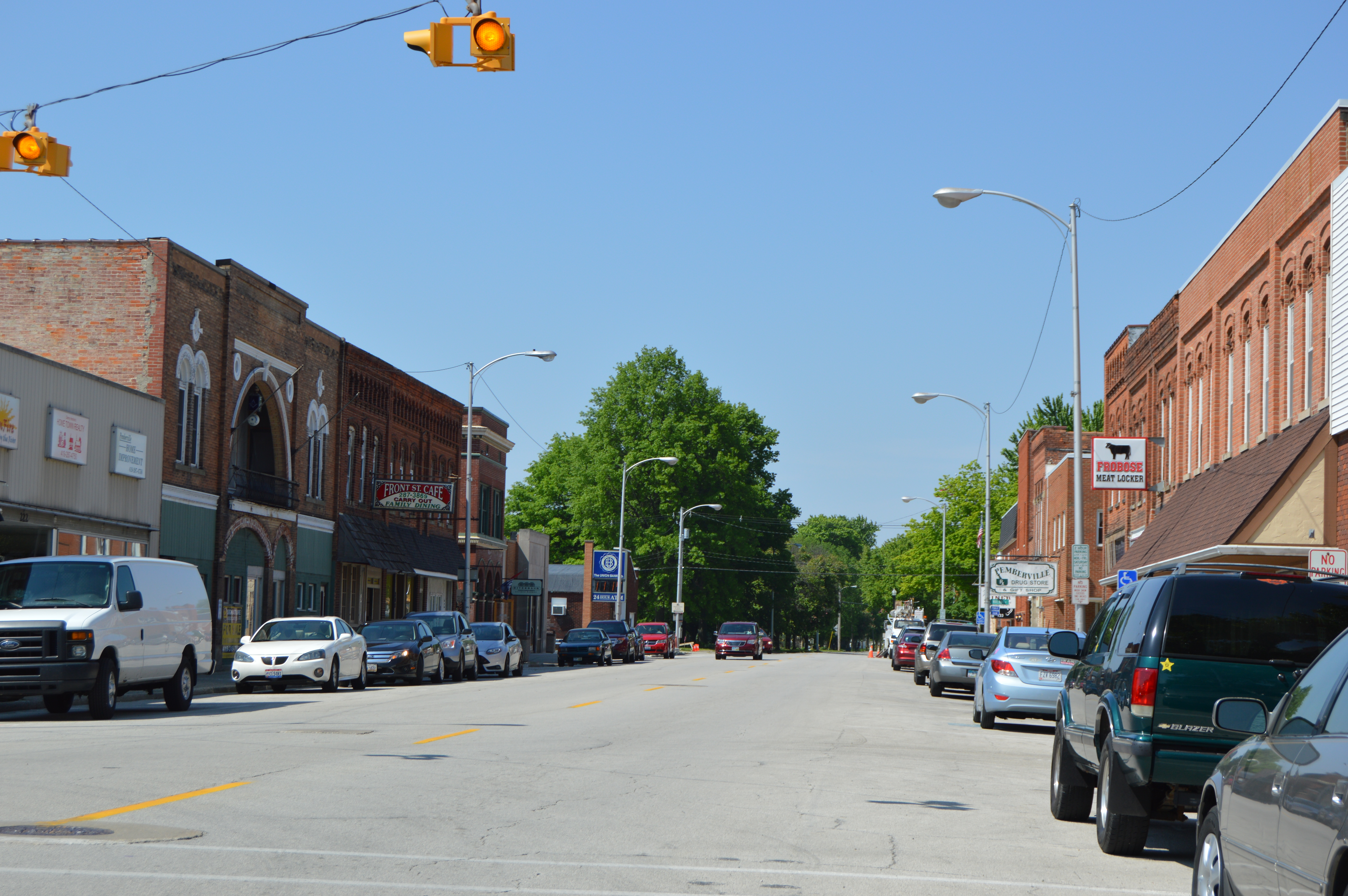 Looking west on Front Street (State Route 105) from Water Street in central Pemberville, Ohio, United States.